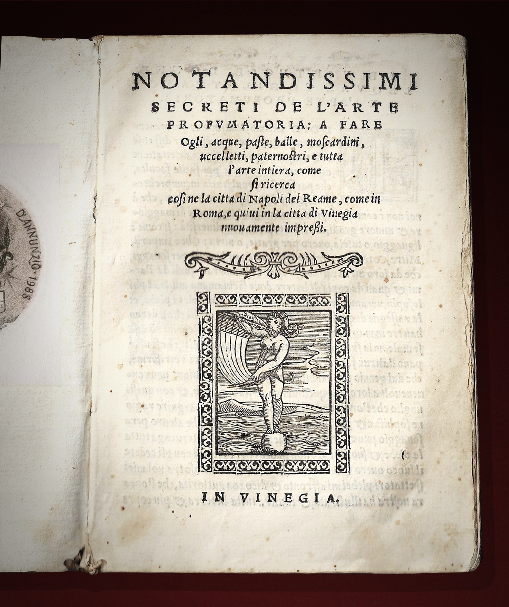 Original Copy of the Notandissimi Secreti de l'Arte Profumatoria, the first western book on scents and cosmetics printed in Venice in 1555. This is the d'Annunzio Copy conserved in the Vittoriale Museum.